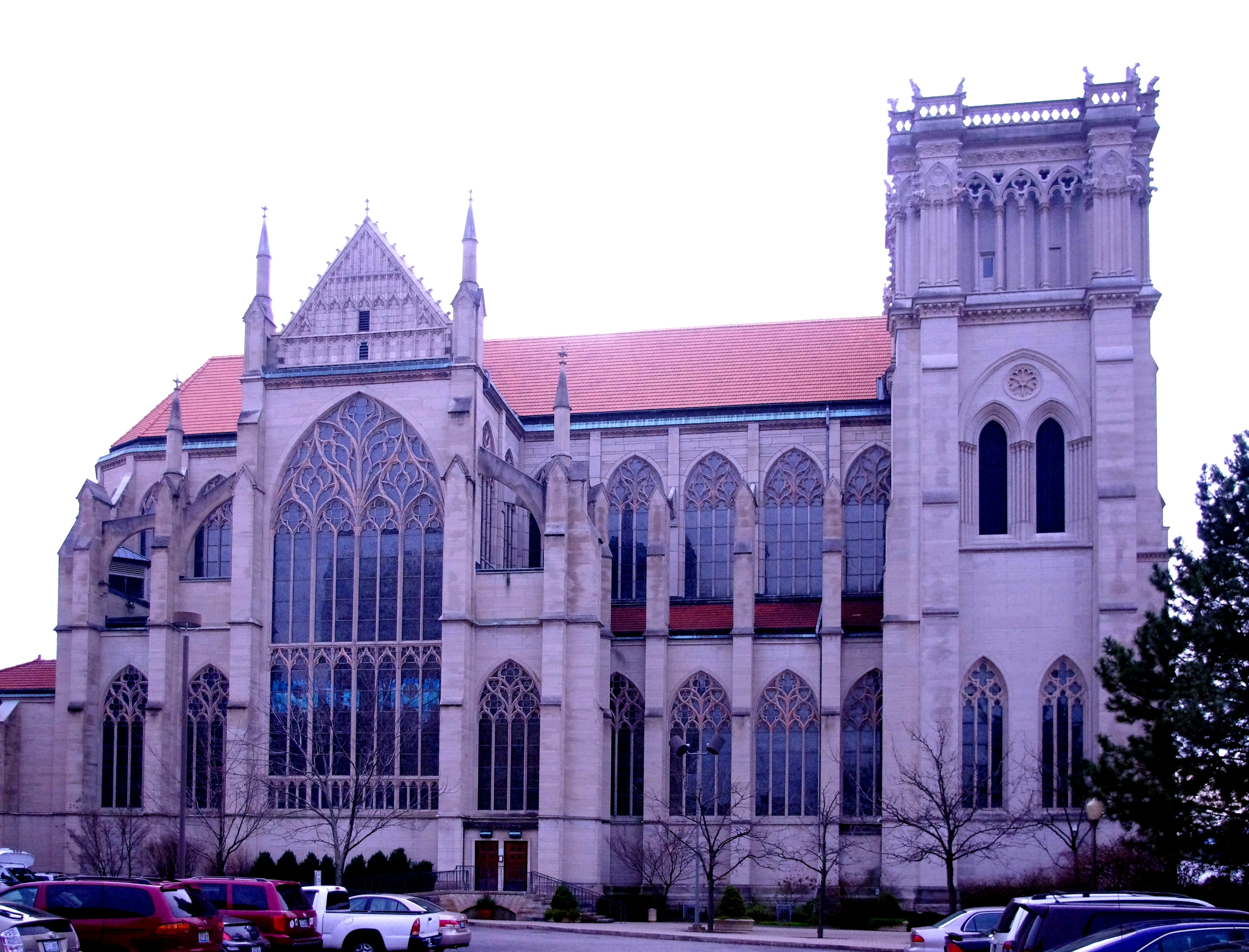 St. Mary's Cathedral Basilica of the Assumption (Covington, Kentucky), exterior, north face